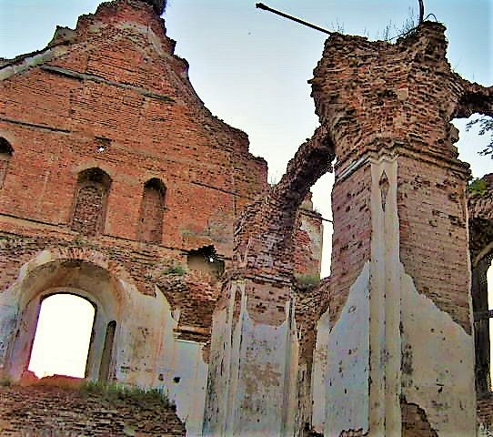 zembin